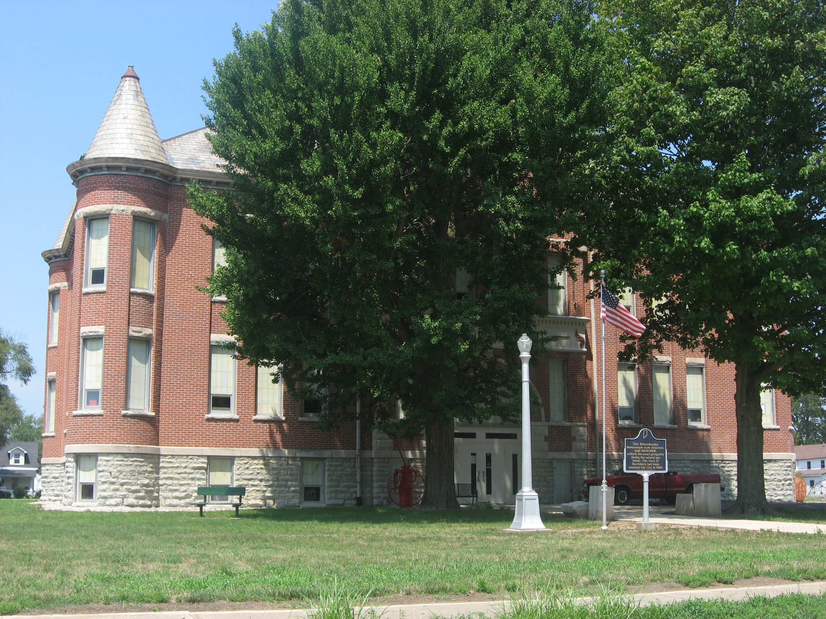 Front of the West Ward School, located at 210 W. North A Street in Gas City, Indiana, United States. Built in 1900 and since converted into a museum and community center, it is listed on the National Register of Historic Places.